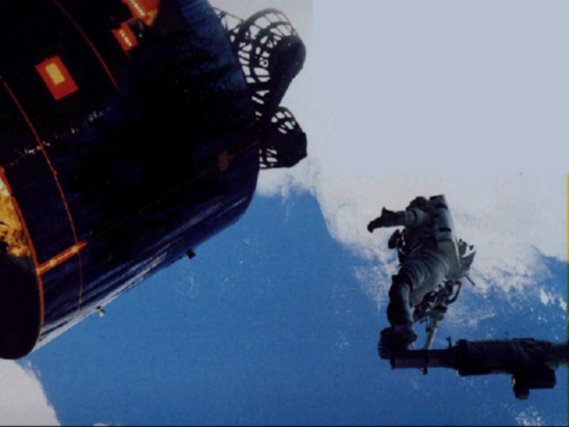 A view of space shuttle astronaut James van Hoften standing on the end of the Space Shuttle Discovery's robotic arm, manipulating the Syncom IV-3 (Leasat 3) satellite during STS-51-I.